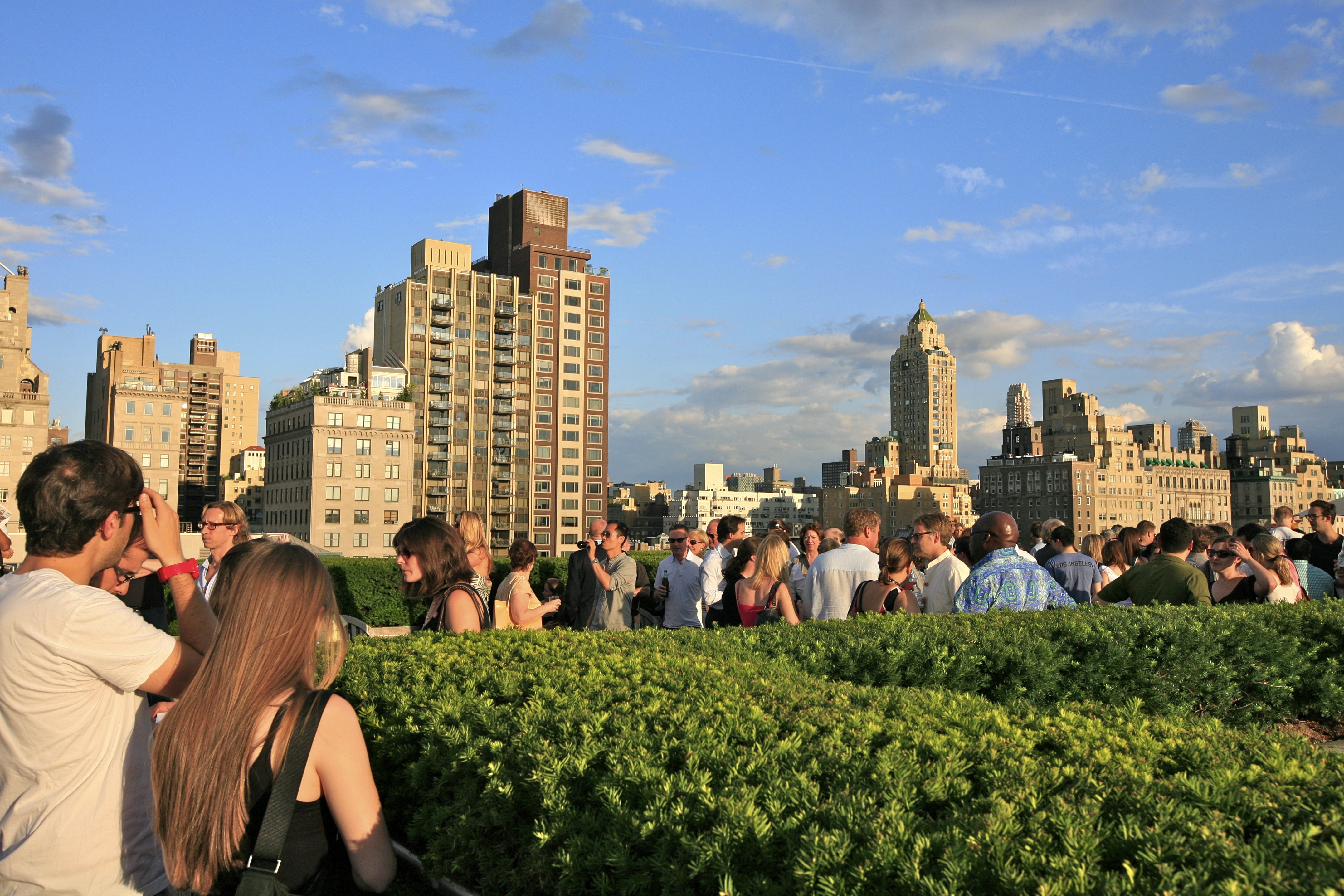 Rooftop Bar, Metropolitan Museum Of Art